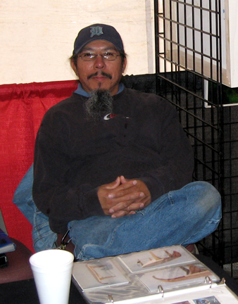 Dennis Esquivel (Grand Traverse Band of Chippewa and Ottawa Indians/Mestizo), painter, sculptor, fine furniture-maker, from Santa Fe, NM.